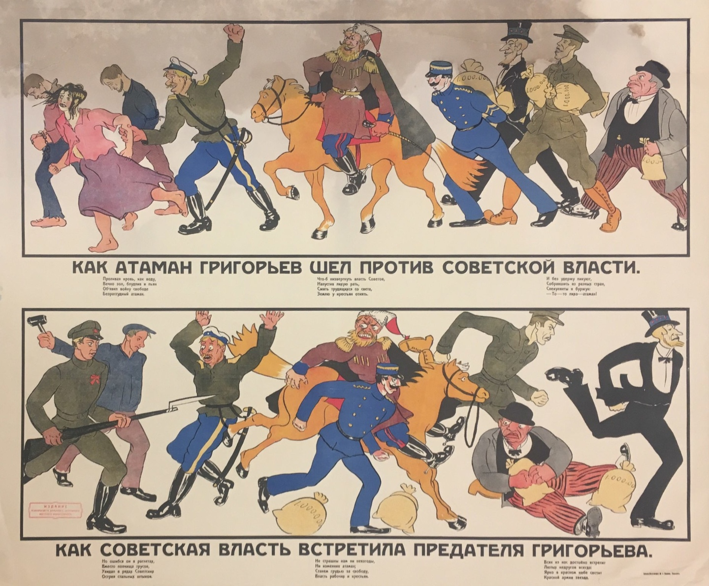 Bolshevik propaganda poster depicting the struggle against ataman Nikifor Grigorev, 1919.